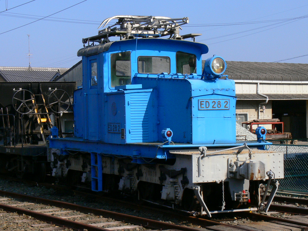 Enshu Railway ED282 Electric locomotive(Japan). 遠州鉄道ED282形電気機関車。 遠州鉄道鉄道線の西ヶ崎駅にて撮影。